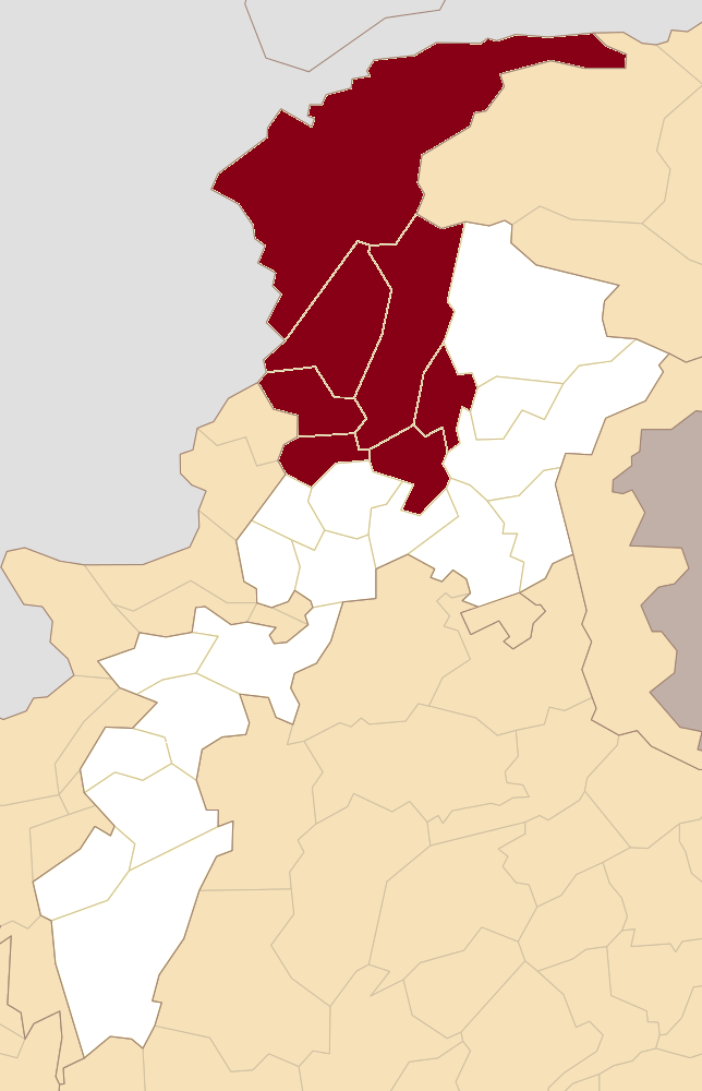 Derivative works of this file: Khyber Pakhtunkhwa Districts.svg